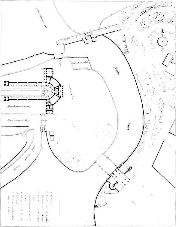 Willemspoort Railway Station, Amsterdam, situation. 1843.